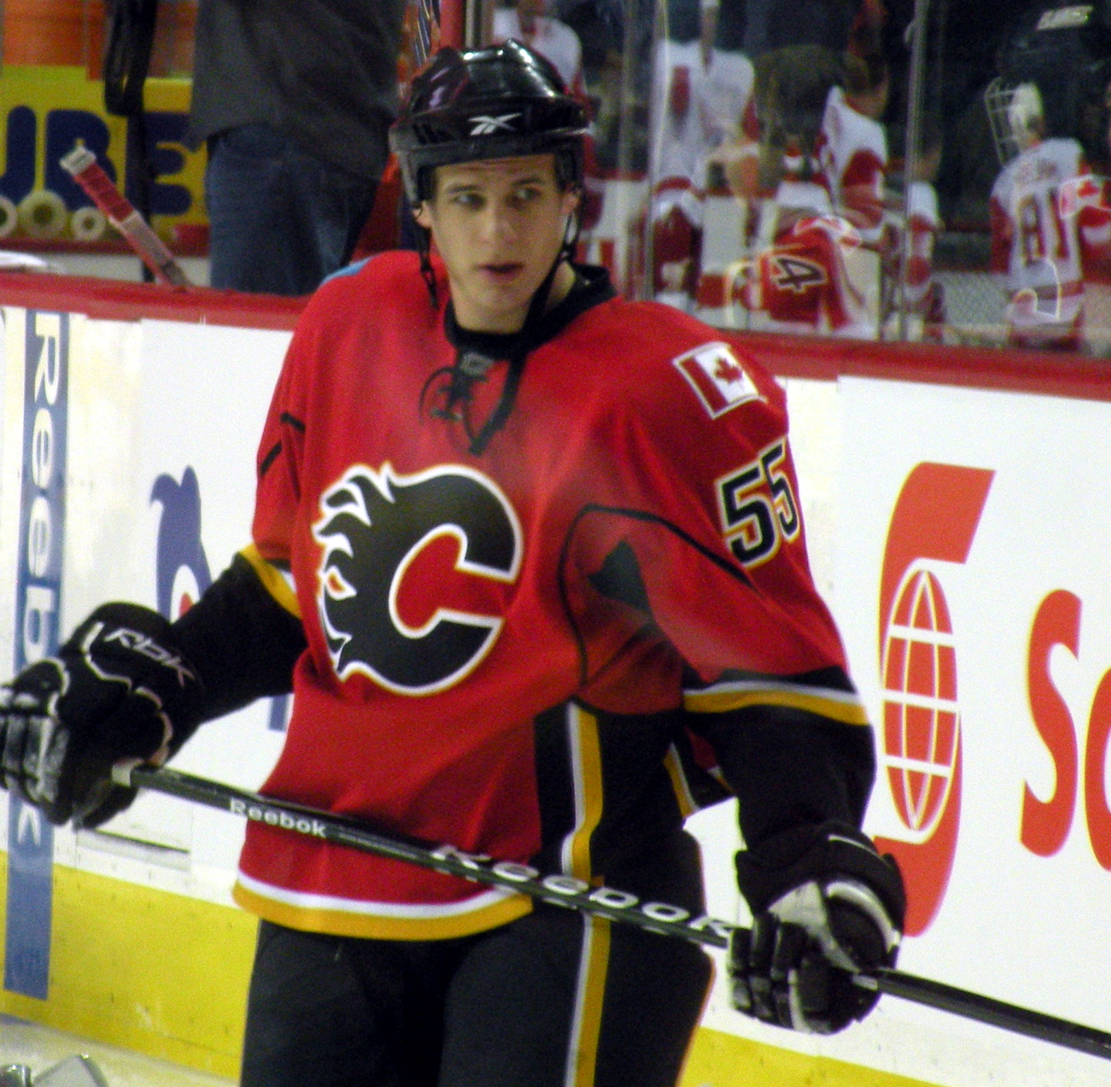 Defenceman Adam Pardy warming up prior to a game between the Calgary Flames and Detroit Red Wings at Calgary, November 22, 2008.